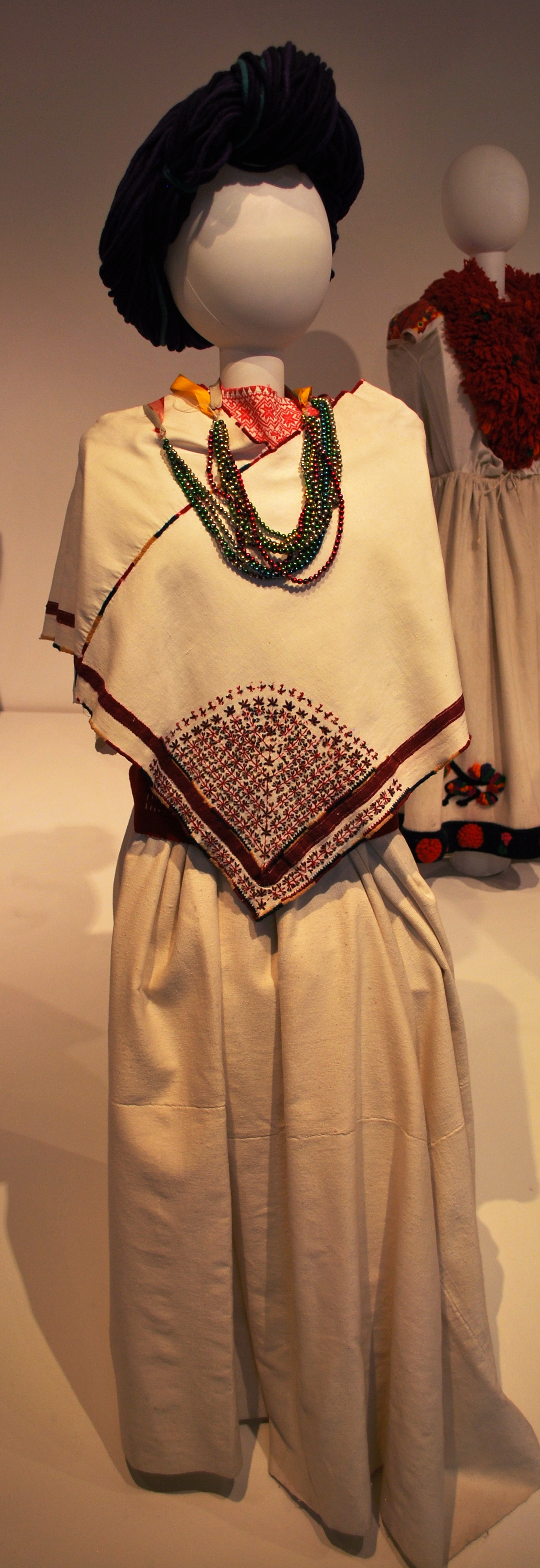 Example of traditional Tzotzil woman's garb at the Museum of Artes Populares in Mexico City